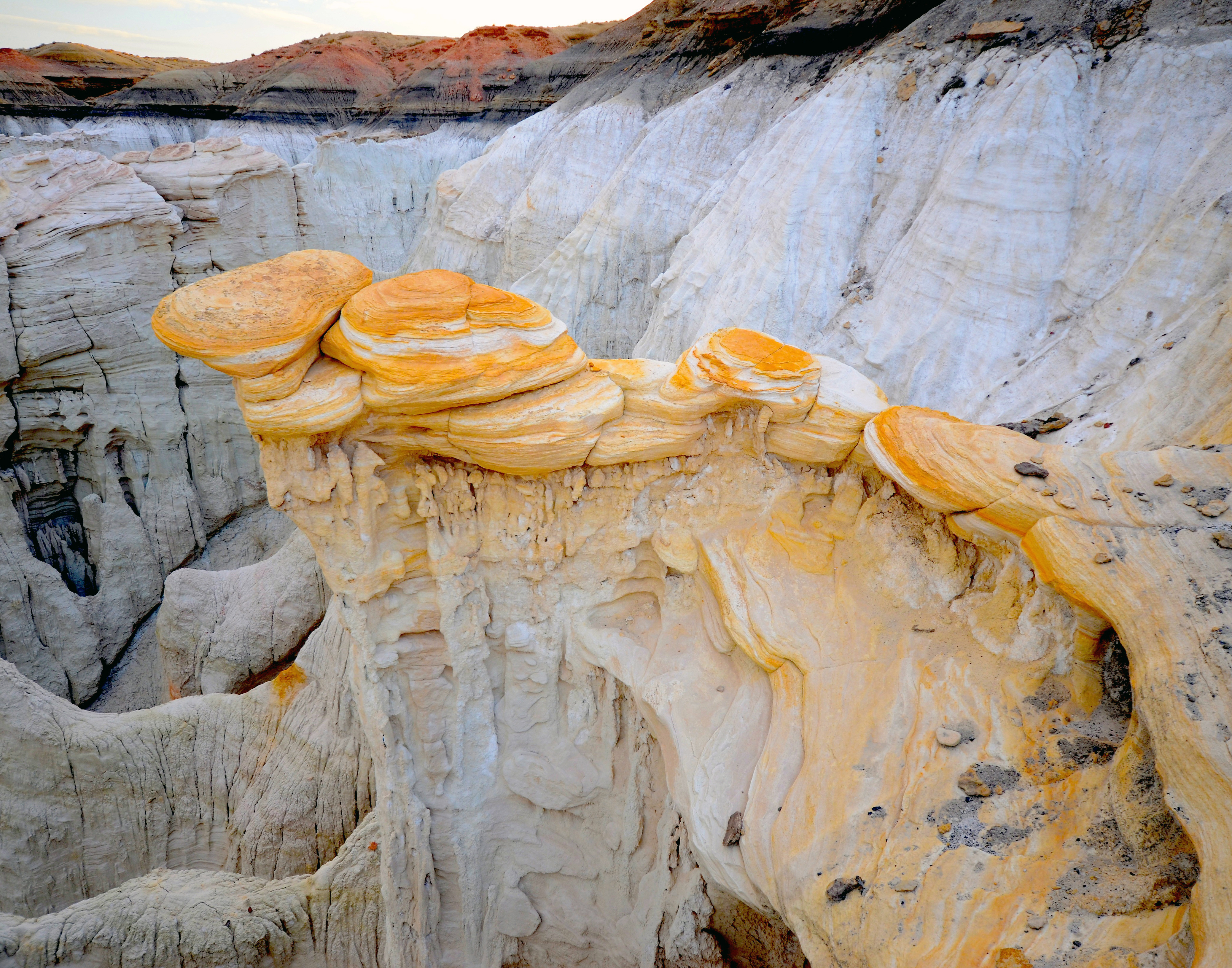 Hahonogeh Canyon, near Coal Mine Canyon, Navajo reservation